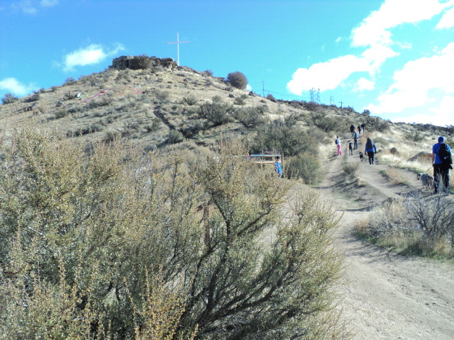 Table Rock in Boise, Idaho affords an easy day hike.